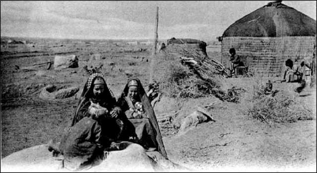 Caucasian bread made in Transcaspia